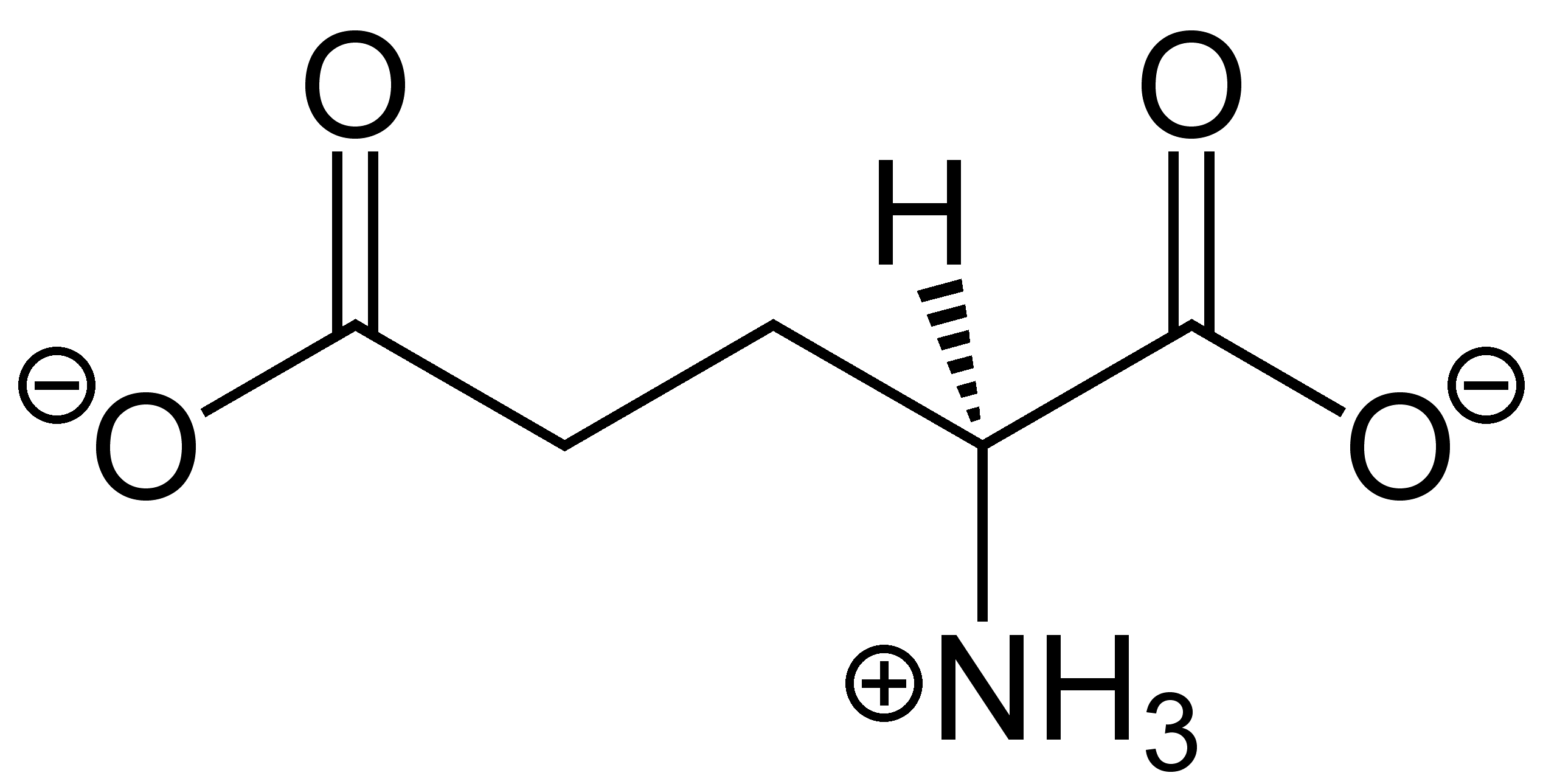 L-Glutamate_Structural_Formulae